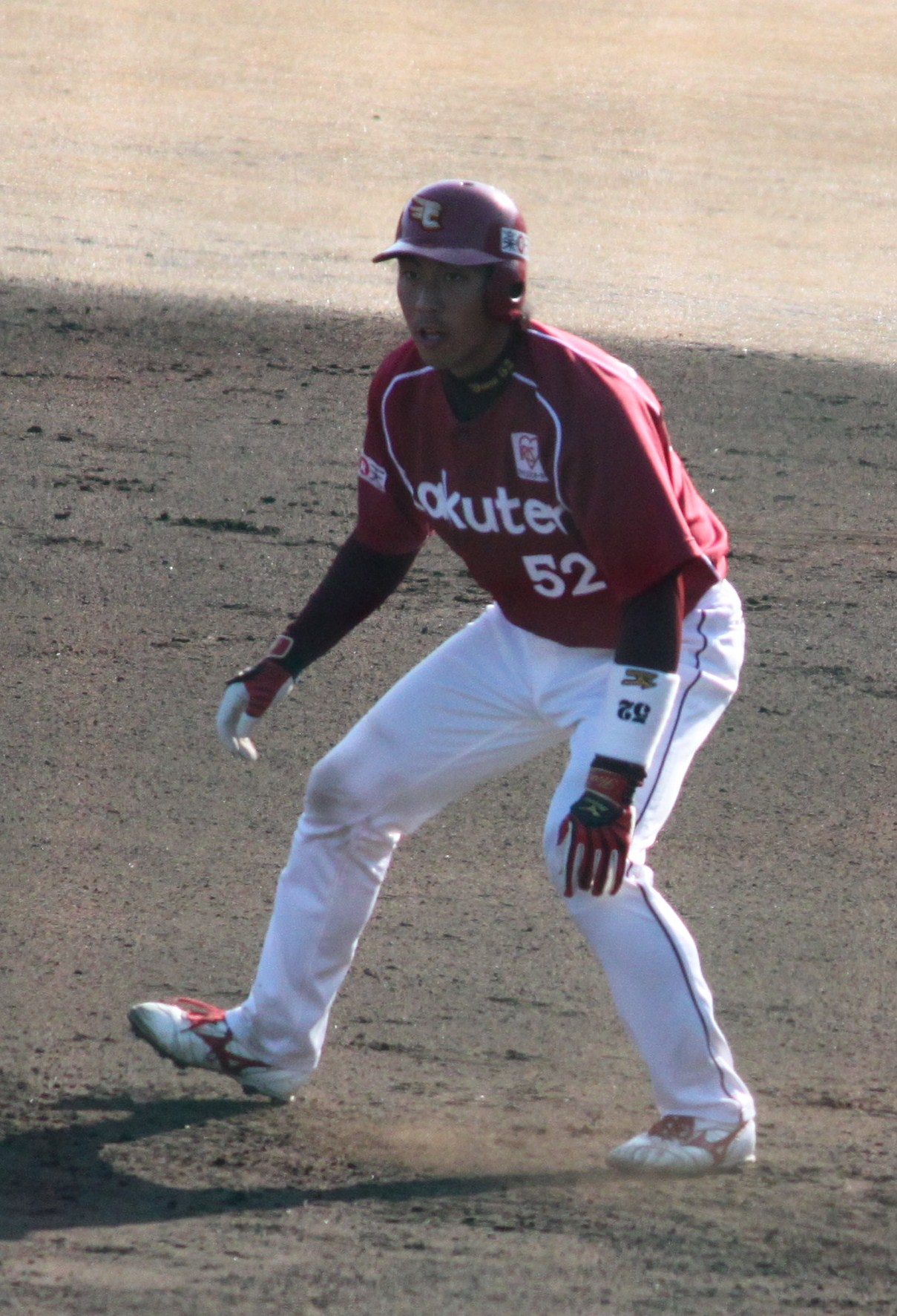 Hiroaki Yamamoto, catcher of the Tohoku Rakuten Golden Eagles, at Yokohama BayStars Baseball Integrated training field.